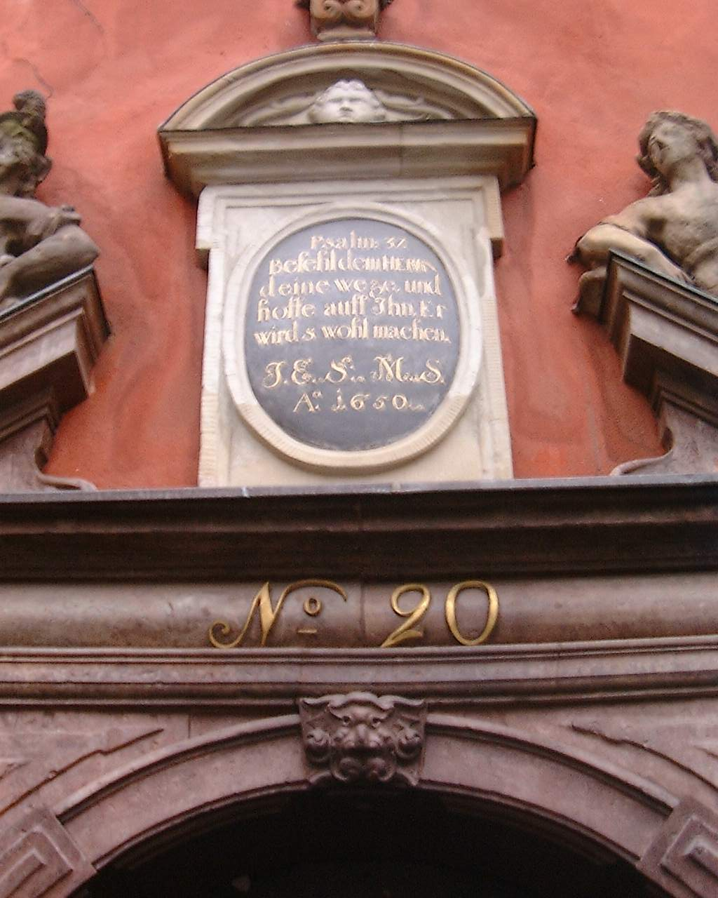 Inscription over the front door of 20, Stortorget, Gamla stan, Stockholm quoting Psalm 37:5 in Oldgerman: "Befehl dem Herrn deine wege und hoffe auff Ihn, Er wirds wohl machen."; English translation: "Commit thy way unto the LORD; trust also in Him, and He will bring it to pass."